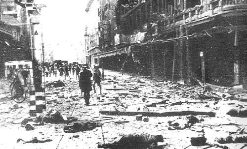 Shanghai bombed out in 1937.